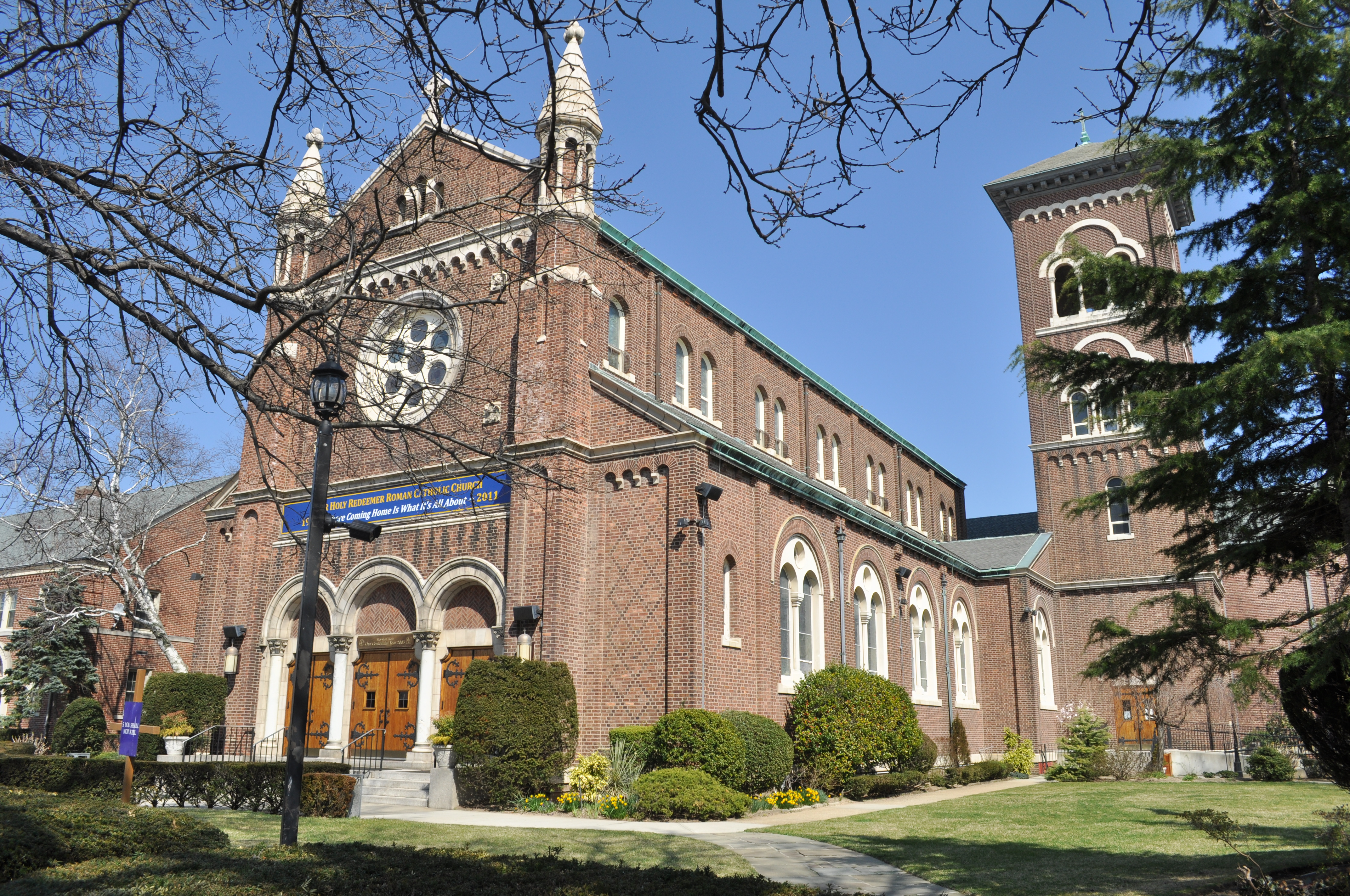 Our Holy Redeemer Roman Catholic Church, 37 South Ocean Avenue, Freeport, Long Island, New York.